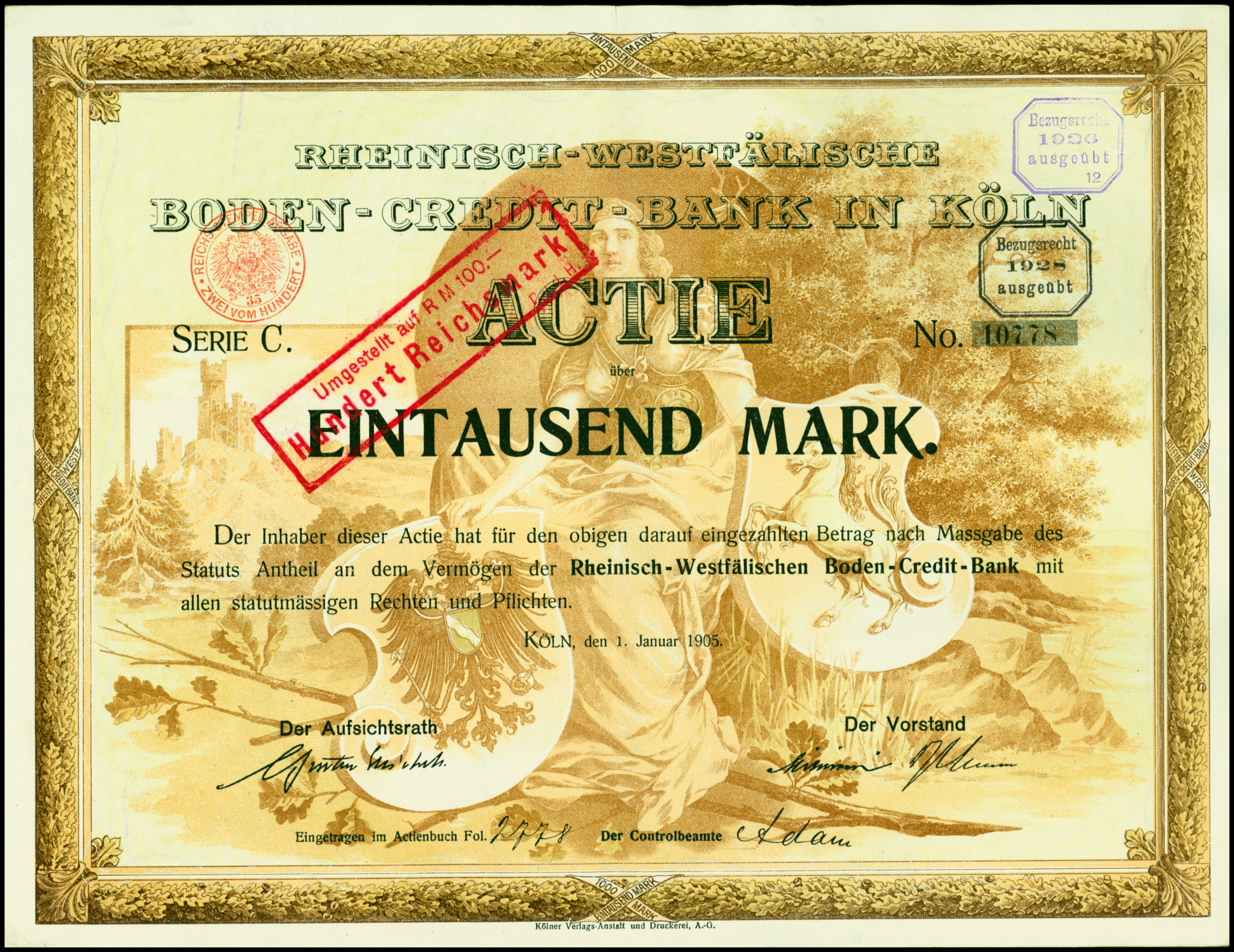 Share of the Rheinisch-Westfälische Boden-Credit-Bank, issued 1. January 1905